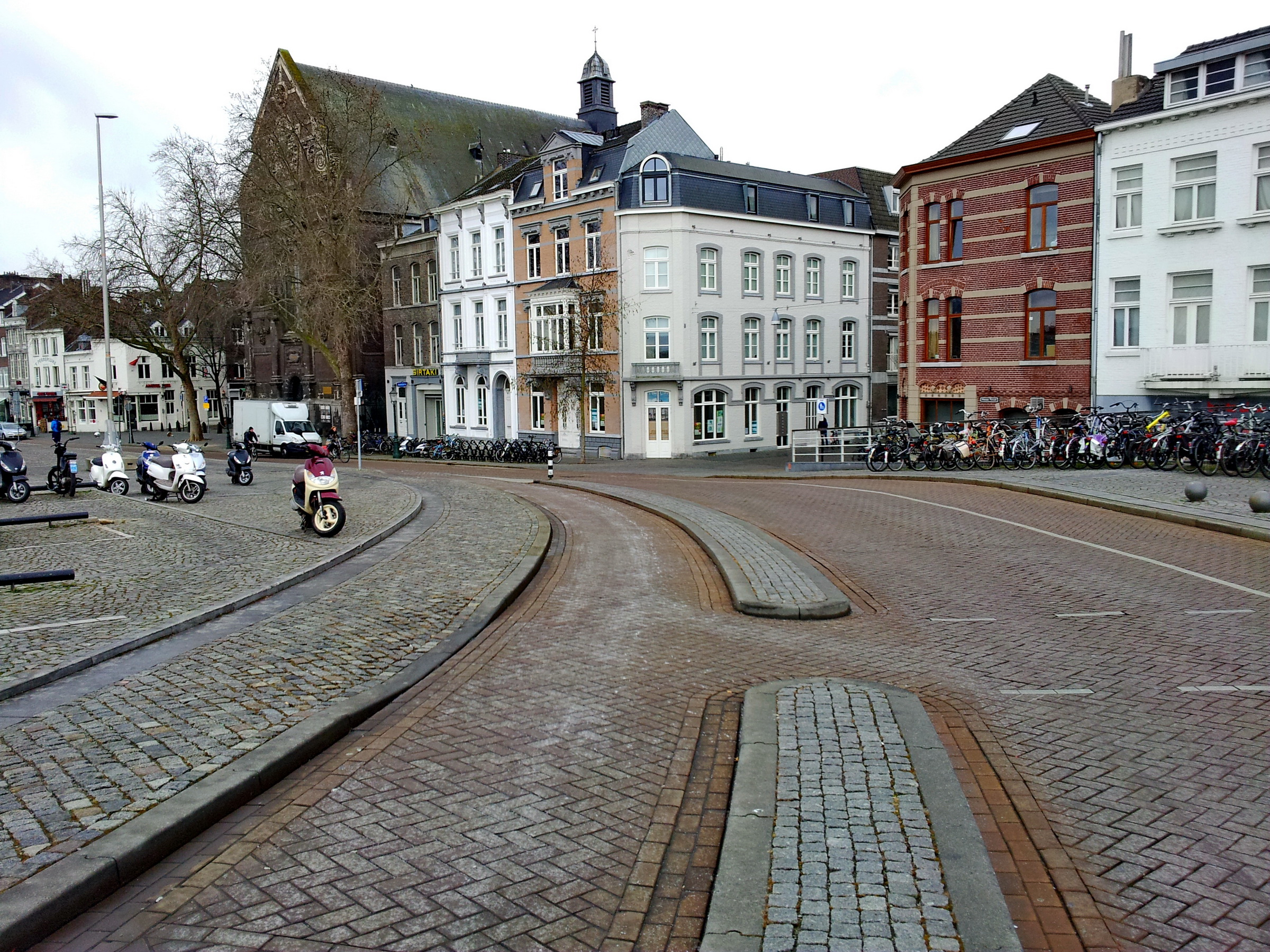 Maastricht, the Netherlands. View of Kesselskade near Hoenderstraat.